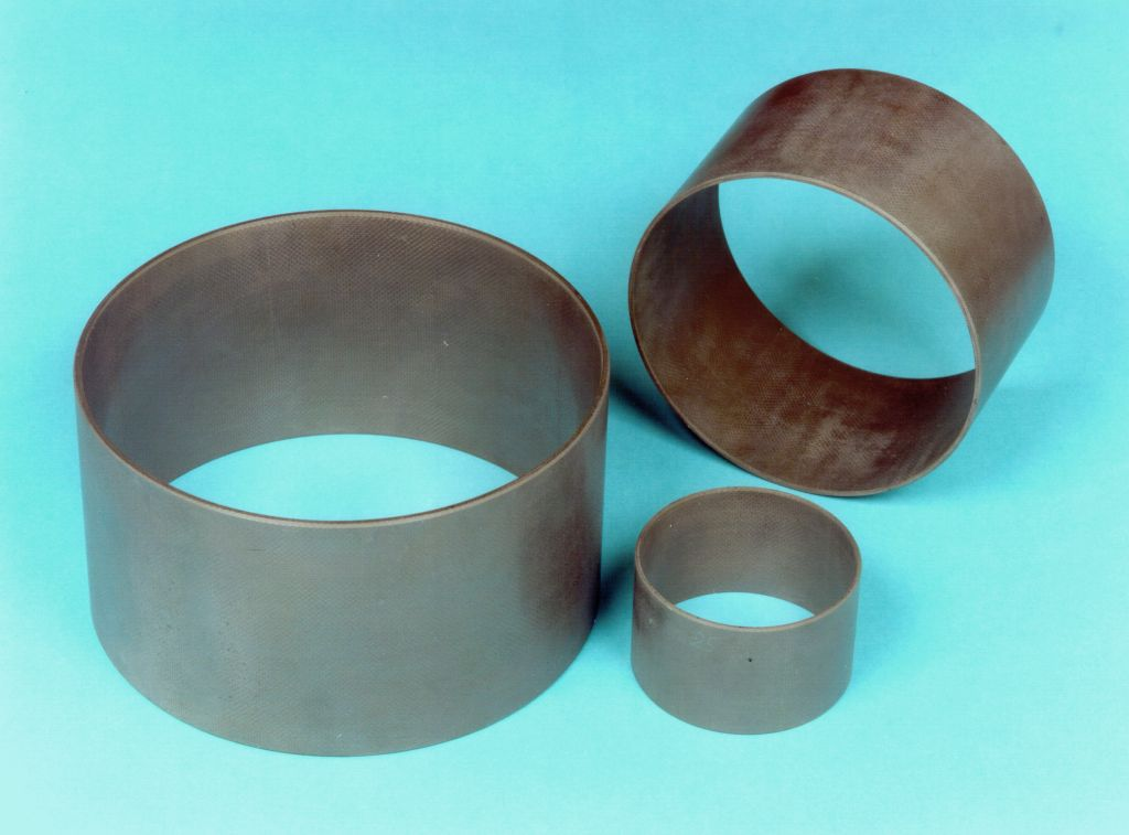 CVI-SiC/SiC-shaft sleeves for big pumps, diamter 100 to 300 mm, (SiC-fibre reinforced SiC material manufactured via chemical vapour infiltration)